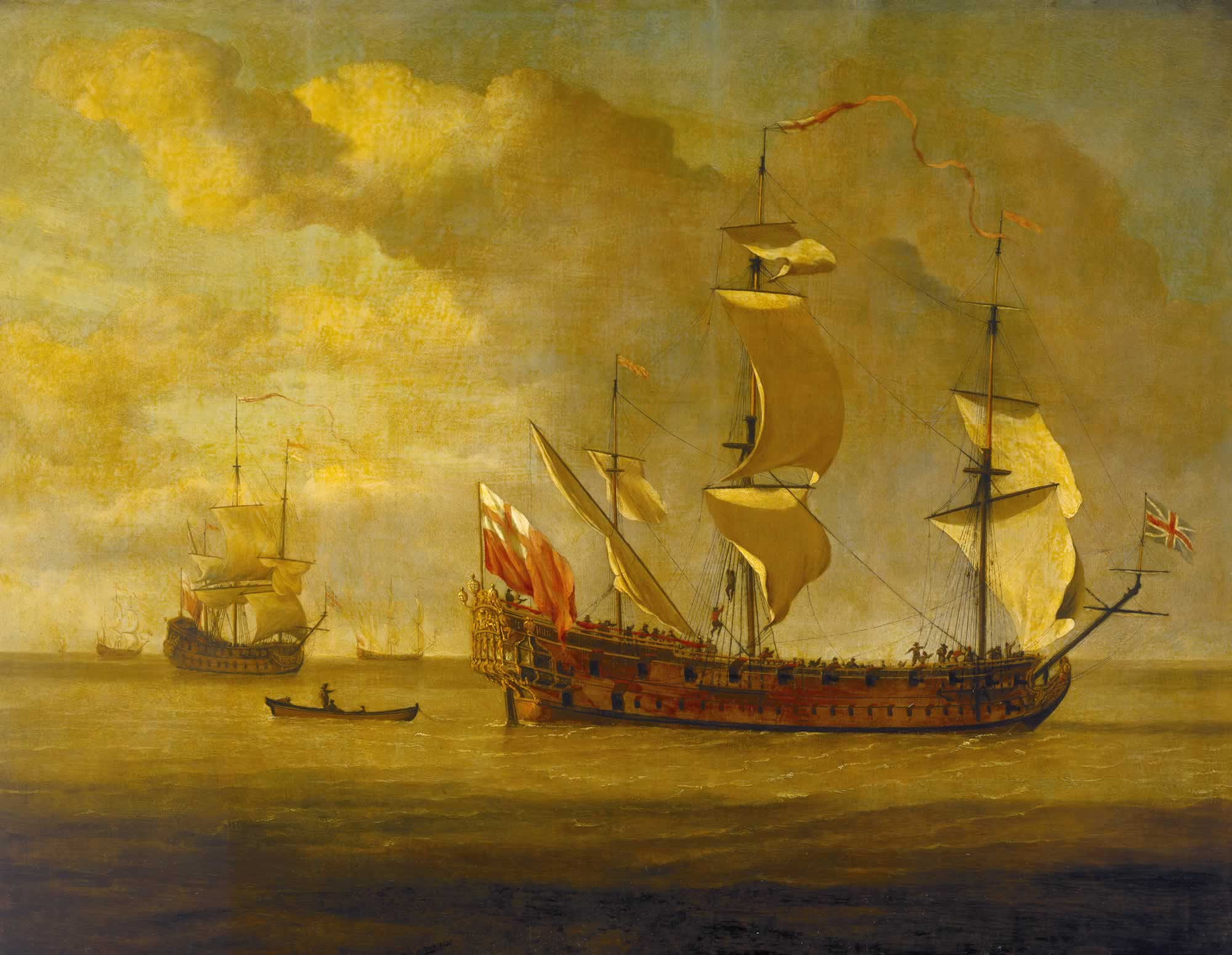 Panel painting of the Charles Galley in a light breeze, towing an admiral's barge with several men in it. The Charles Galley was one of the two so-called galley frigates built in 1676 to serve in the Mediterranean against the Barbary pirates. She was armed with 32 guns and was classed as a fourth-rate ship until 1691. See also info page here.